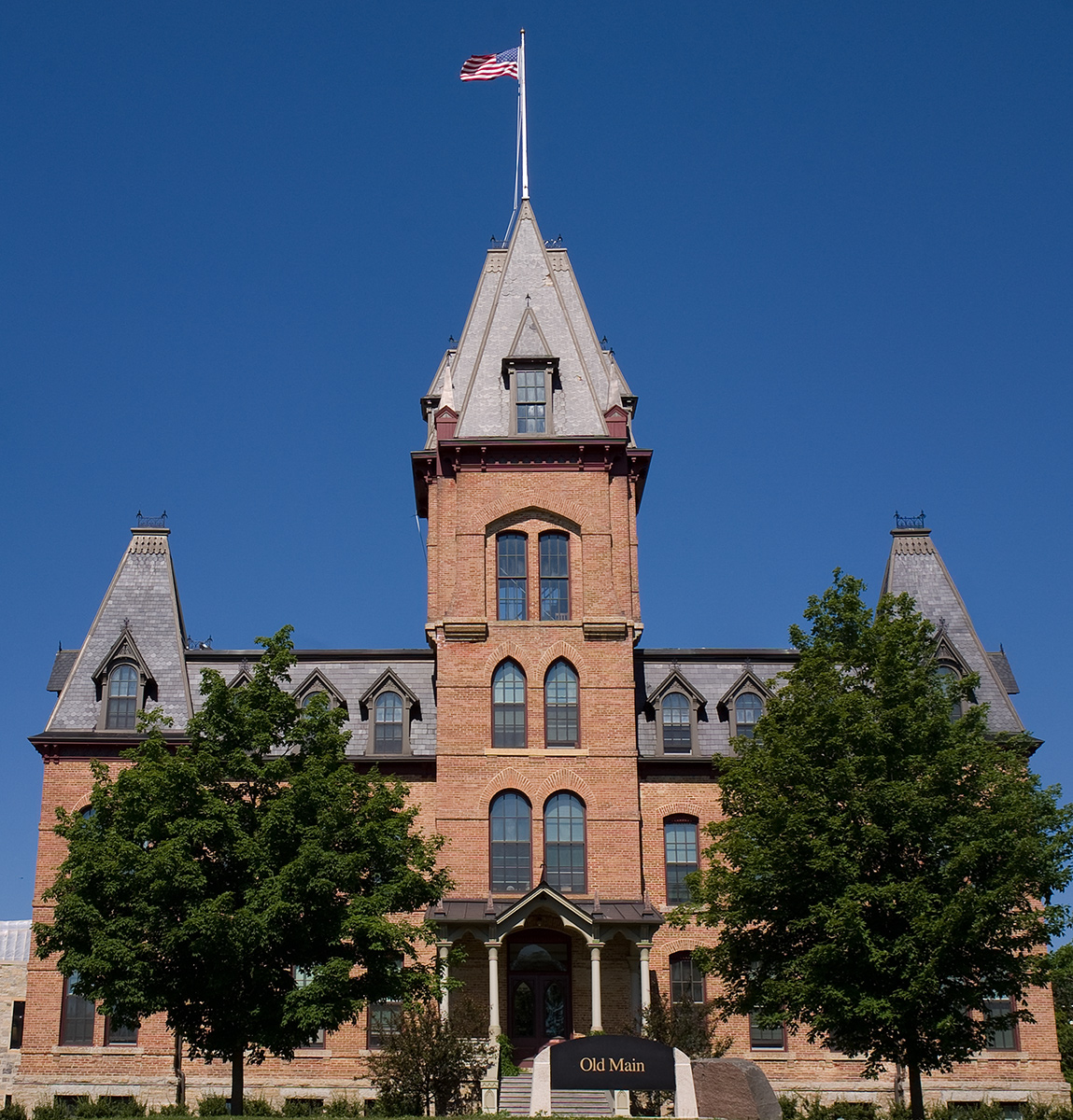 Old Main, St. Olaf College, Northfield, Minnesota. June 2008.